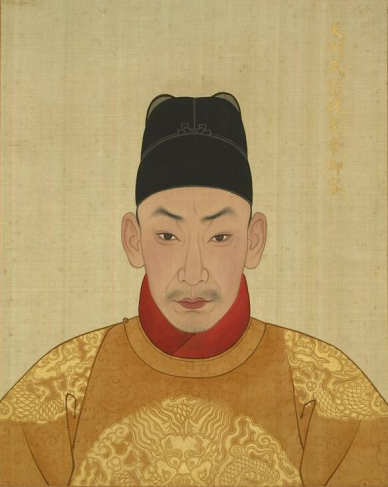 Portrait of Emperor Wuzong of Ming Dynasty China